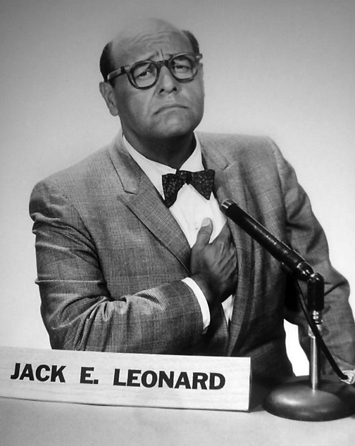 Publicity photo of Jack E. Leonard from the television show Dick Clark's World of Talent.